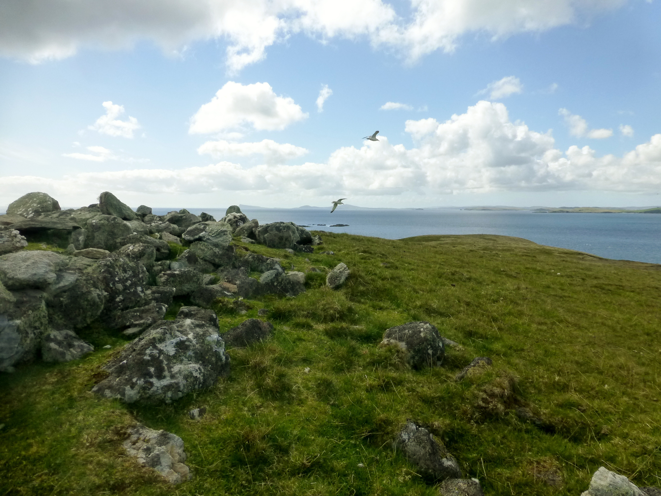 Symbister Ness